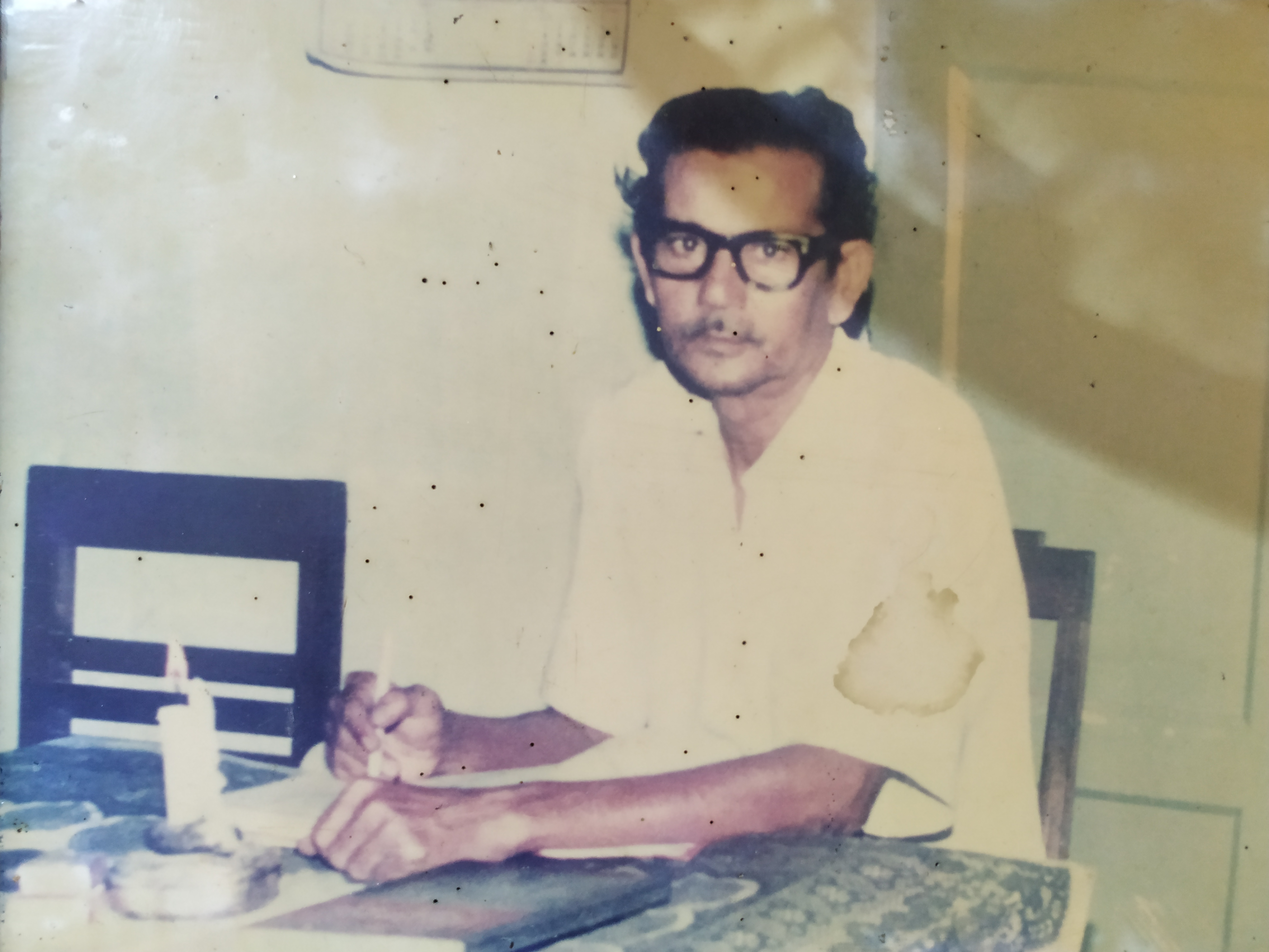 Photograph of Nani Paul, the inventor of Kamalabhog, taken from his family run sweet shop at Madarihat.